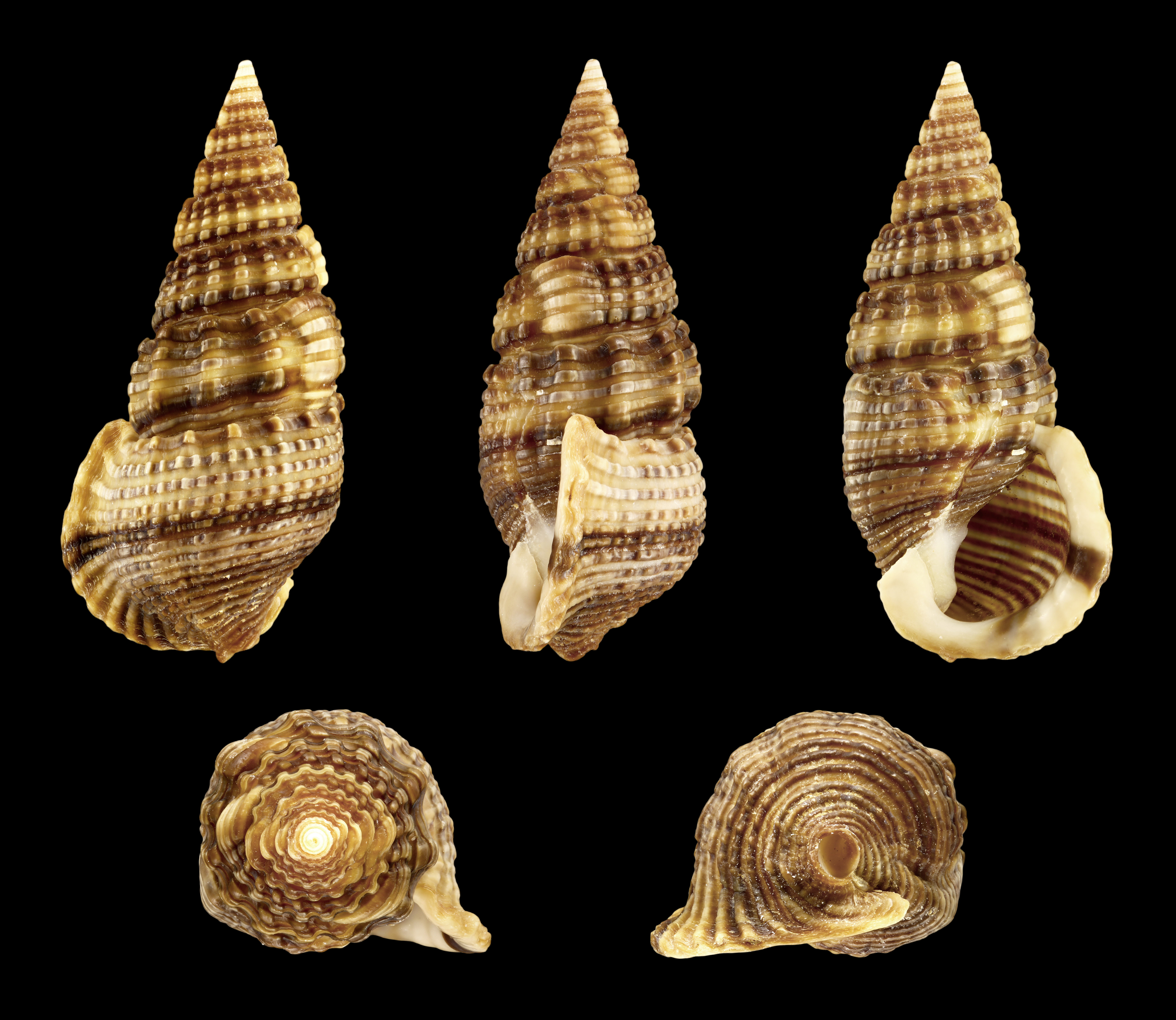 Sulcate Swamp Cerith; length 3.0 cm; Originating from the Philippines; Shell of own collection, therefore not geocoded. Dorsal, lateral (right side), ventral, back, and front view.